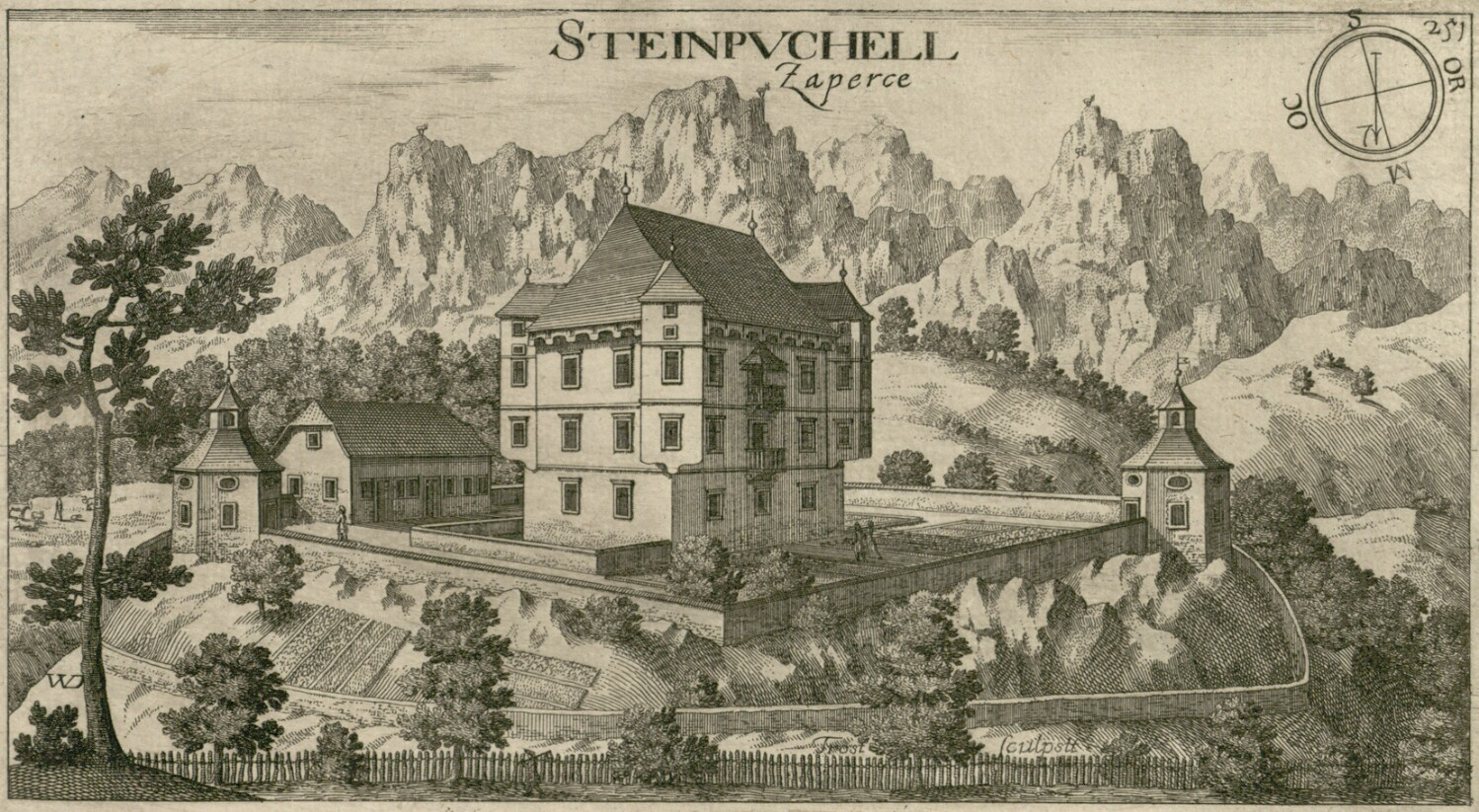 Zaprice castle engraving